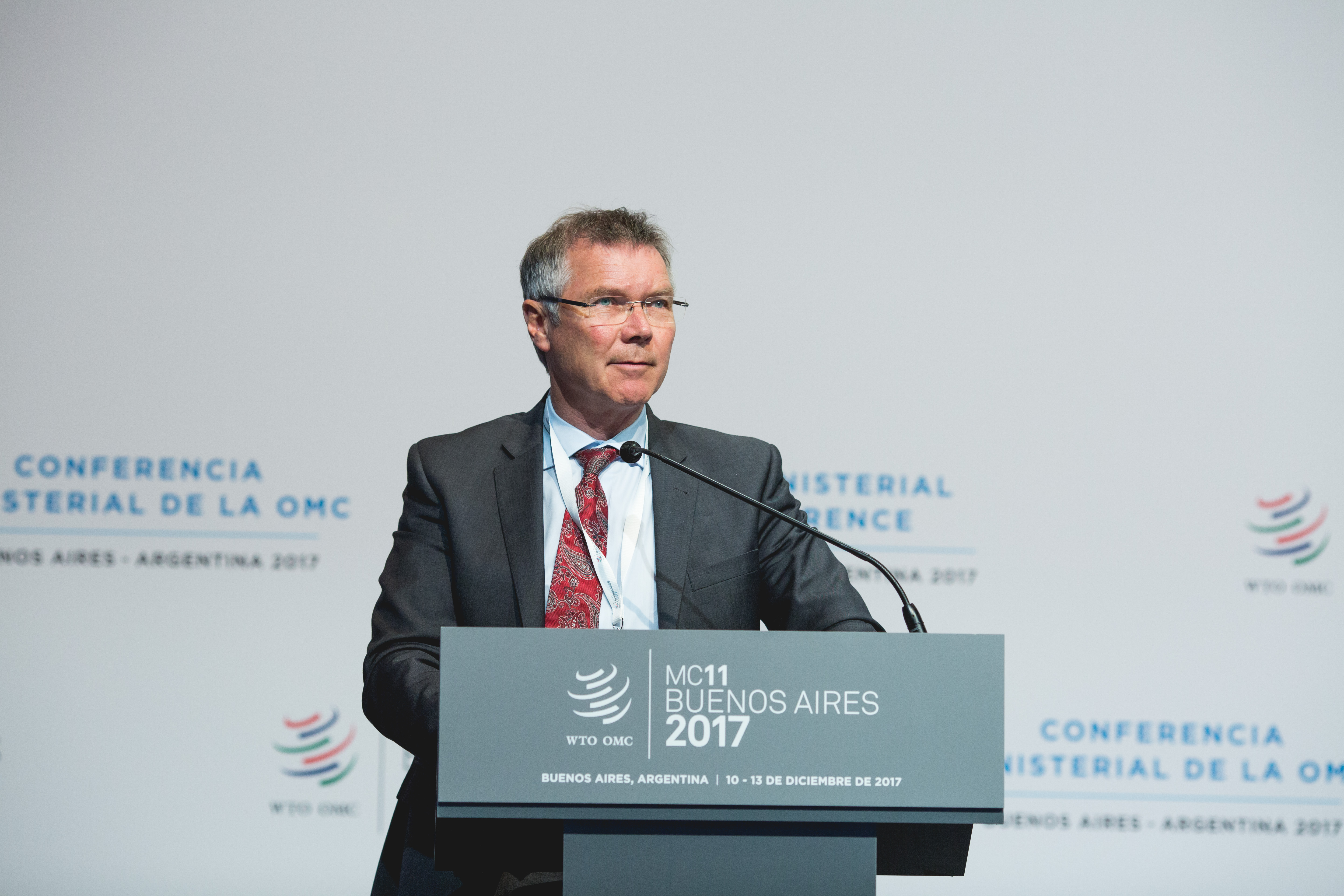 Photos from the opening plenary session photo gallery may be reproduced provided attribution is given to the WTO and the WTO is informed. Photos: © WTO/ Cuika Foto